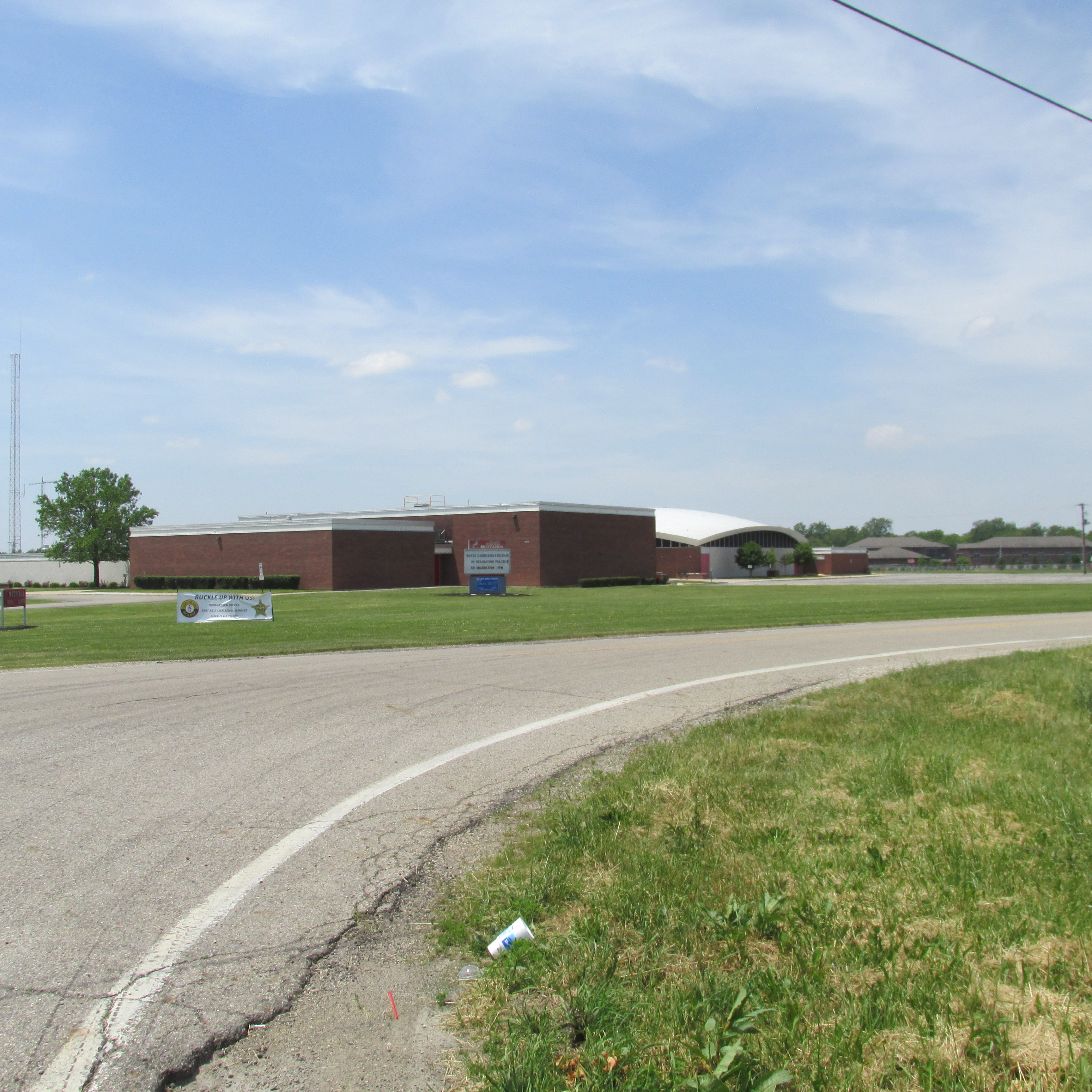 Westfall High School located in Pickaway County, Ohio.